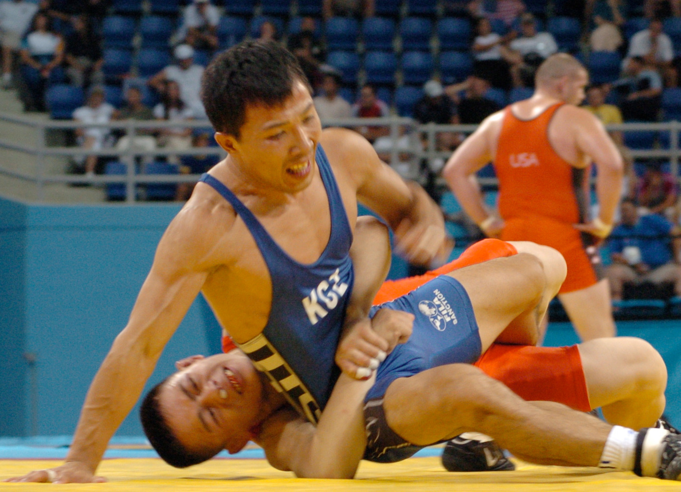 2004 Summer Olympics - Army World Class Athlete Program - FMWRC - U.S. Army - Official Image Archive - Athens Greece - XXVIII Olympiad